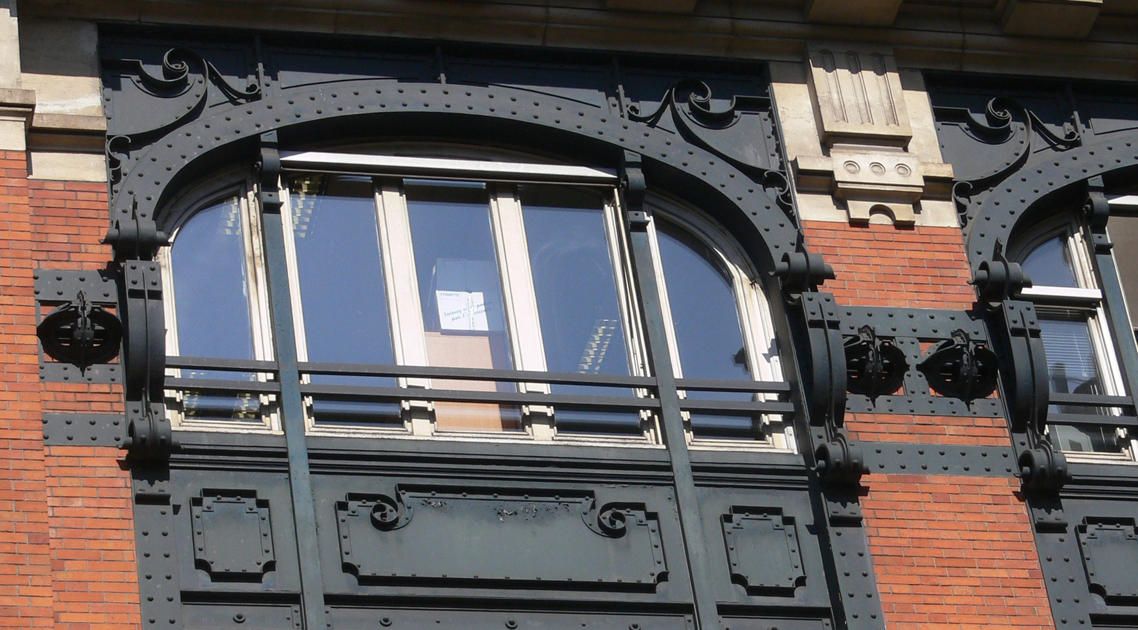 Annexe of the Crédit Lyonnais HQ ; 6 rue Ménars ; 2nd arrondissement, Paris